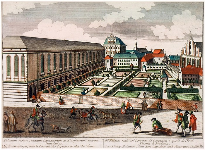 Widok Pałacu Królewskiego we Wrocławiu od strony południowej, Johann David Schleuen st. wg Friedricha Bernharda Wernera, ok. 1760 r.